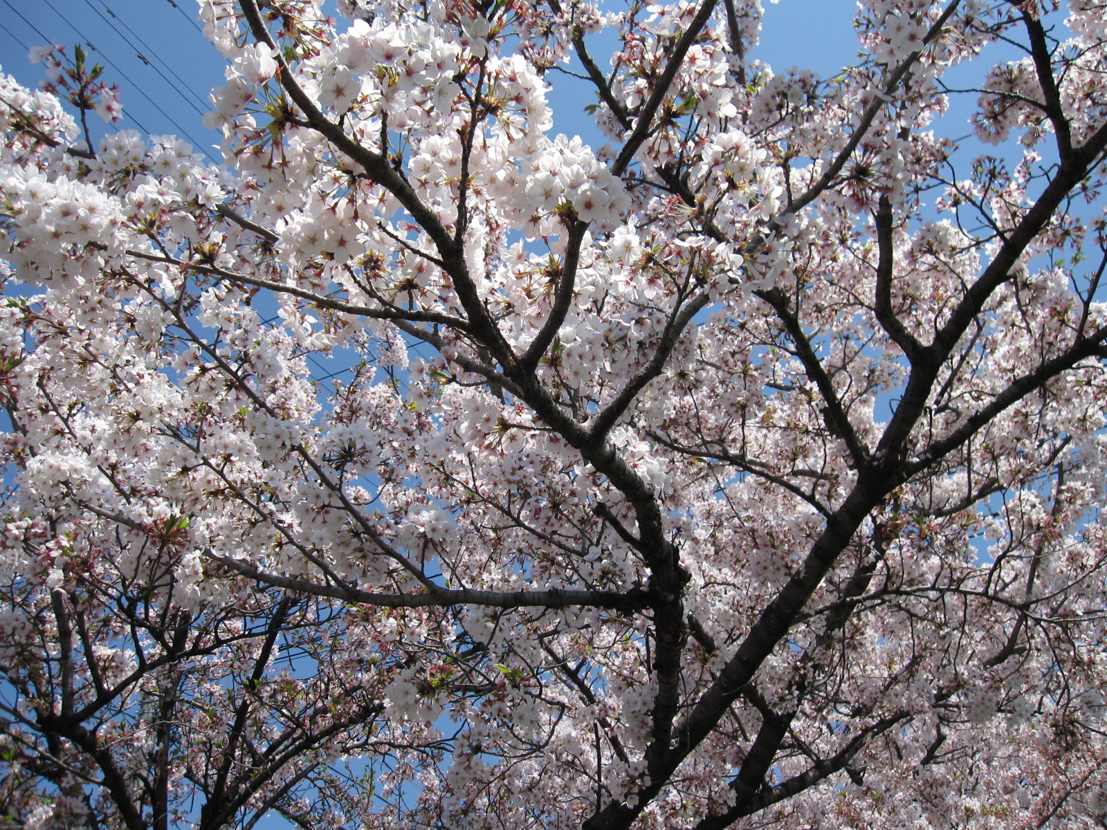 Cherry trees bloom in spring along river that flows through Hara in Tenpaku ward, Nagoya, central Japan.